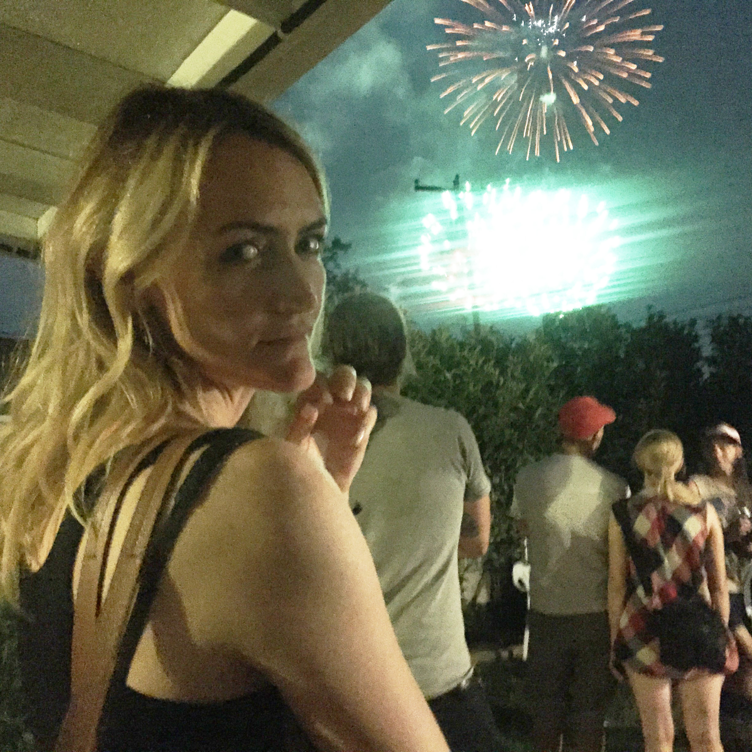 4th of July 2015